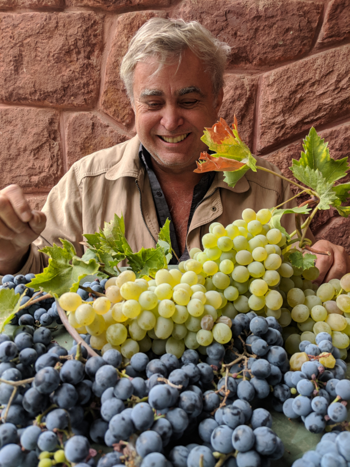 Grape clusters and red sandstone walls on the Balaton Uplands